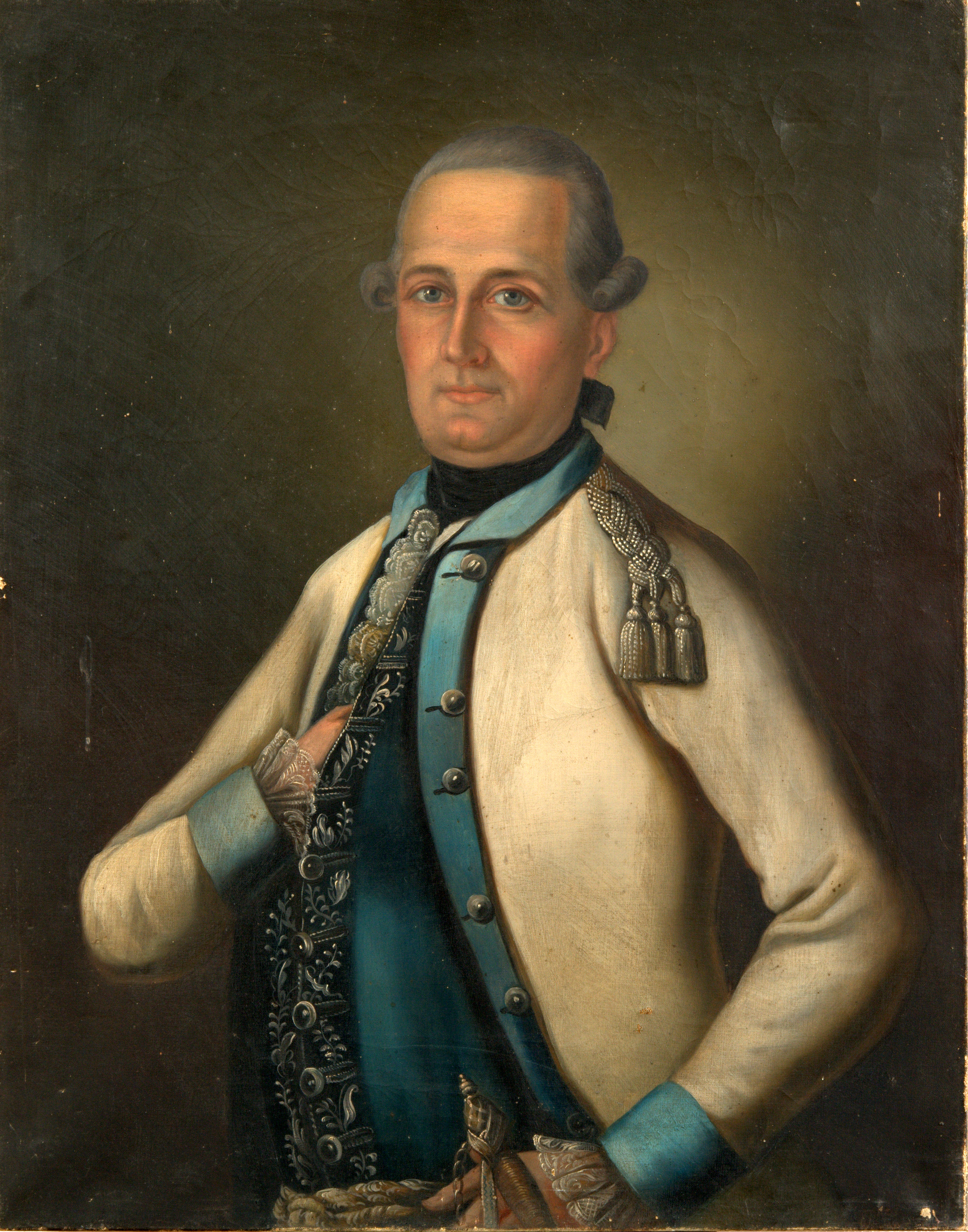 Portrait of Jakob Count Logothetti (1741-1802)